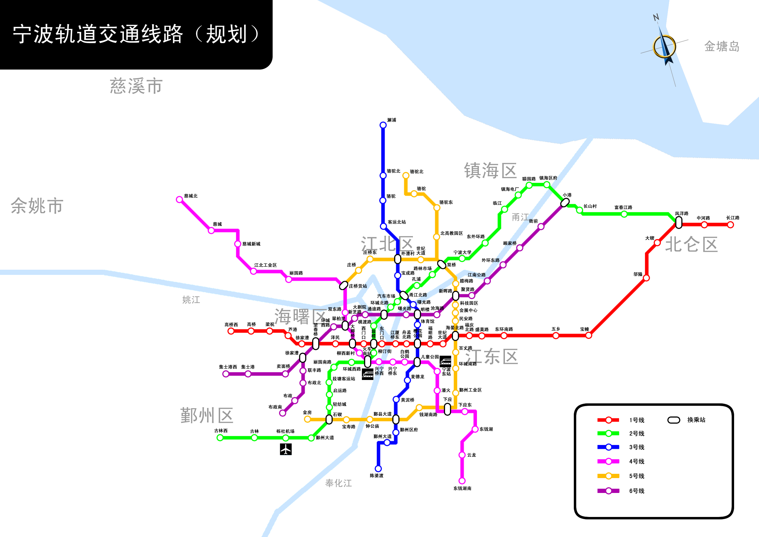 The Routine of Ningbo Metro